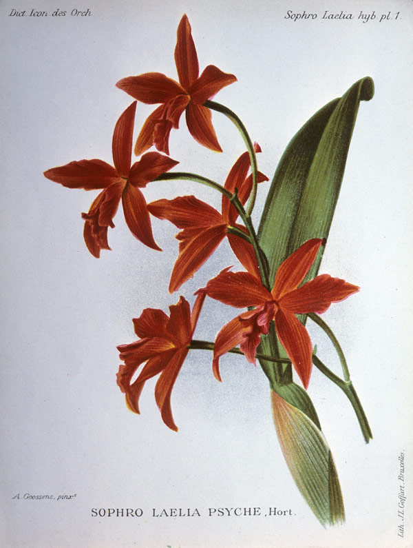 × Sophrolaelia psyche hort.